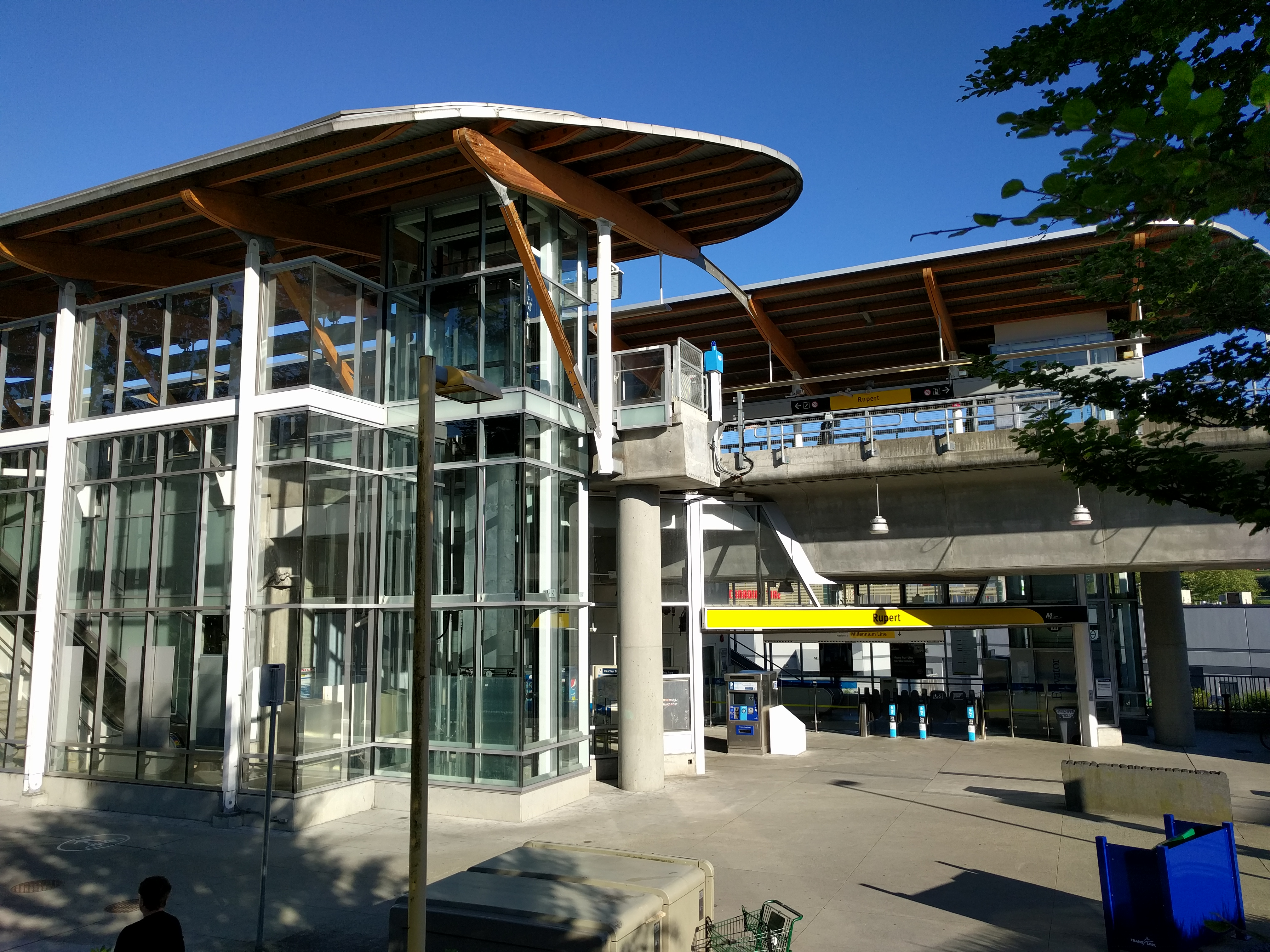 Rupert Station, Vancouver BC